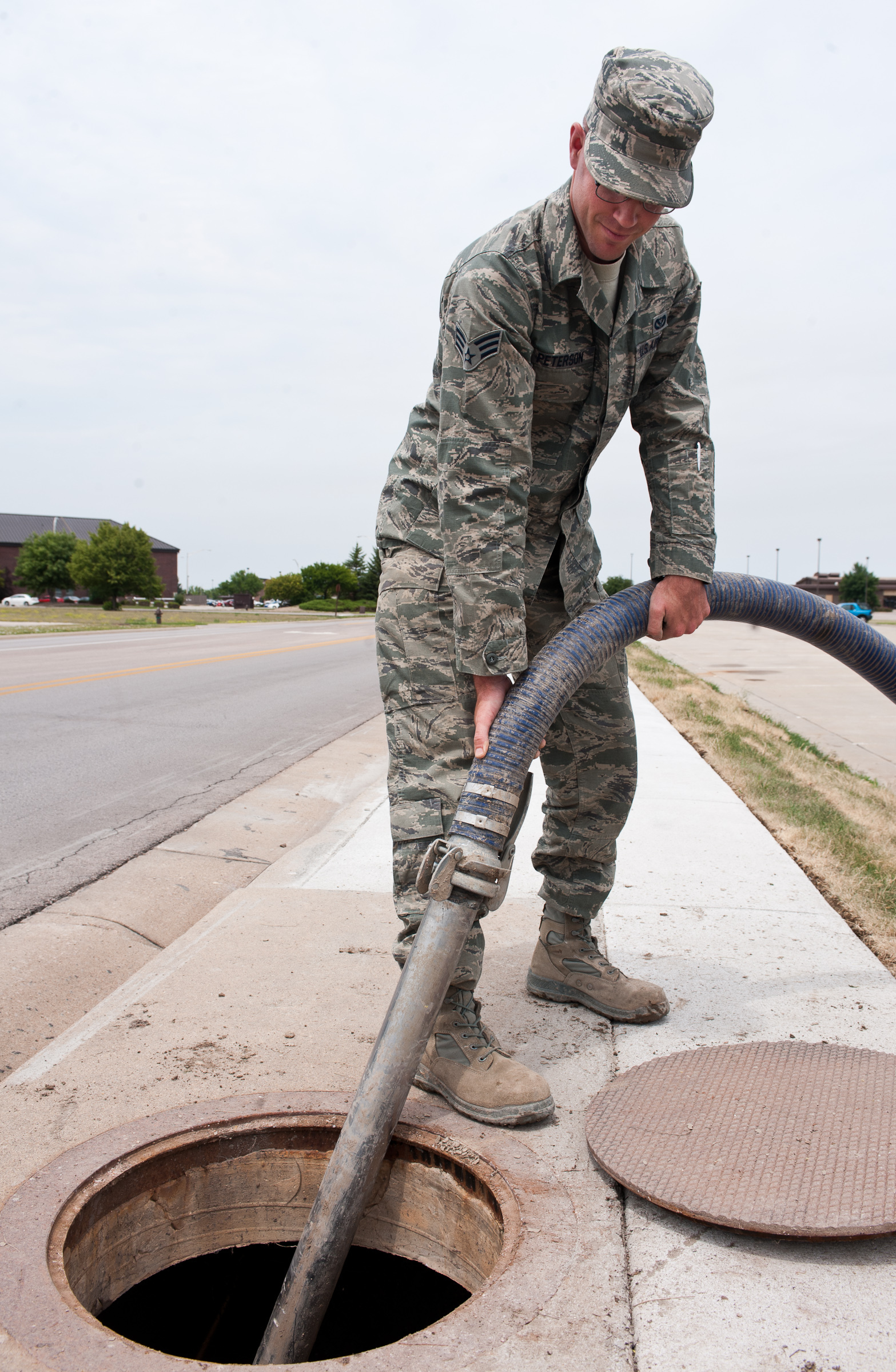 Senior Airman Joshua Peterson, 28th Civil Engineer Squadron water and fuels systems technician, vacuums debris out of a sewer line at Ellsworth Air Force Base, S.D., June 27, 2012. If the sewers are not cleaned regularly, debris can build up and cause the drain to overflow. (U.S. Air Force photo by Airman 1st Class Alystria Maurer)